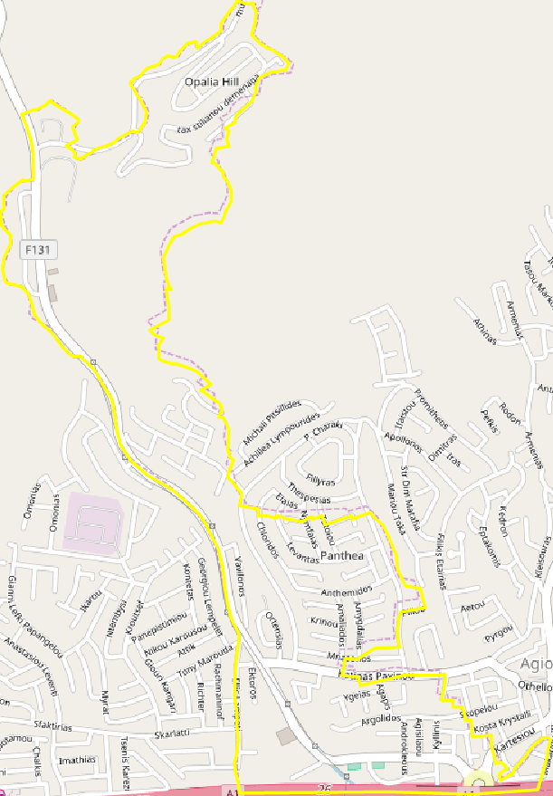 Map of Panthea (Mesa Geitonia).